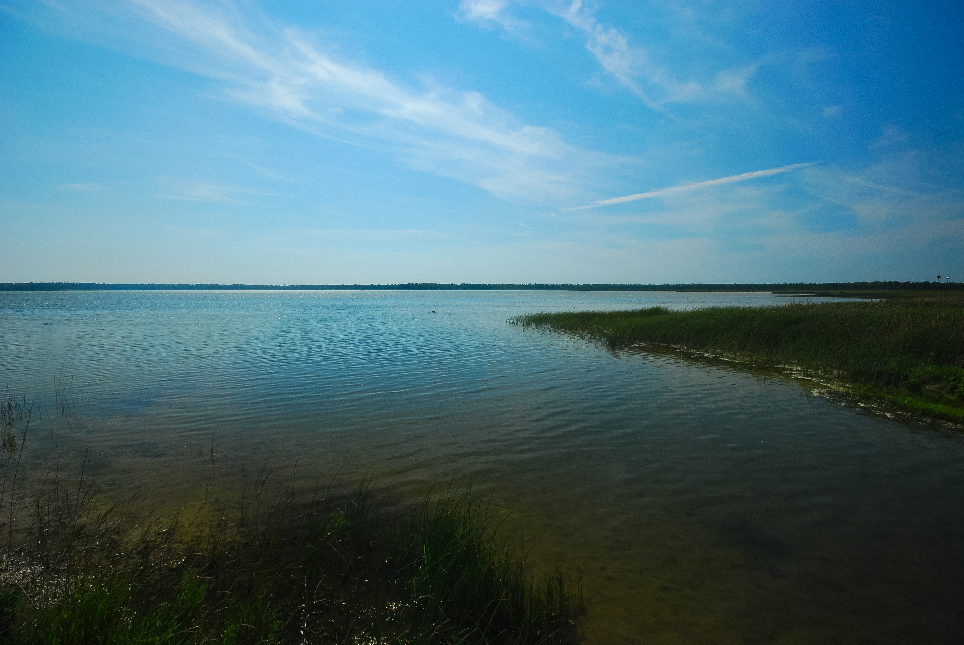 North Bay Wisconsin State Natural Area #381 Door County